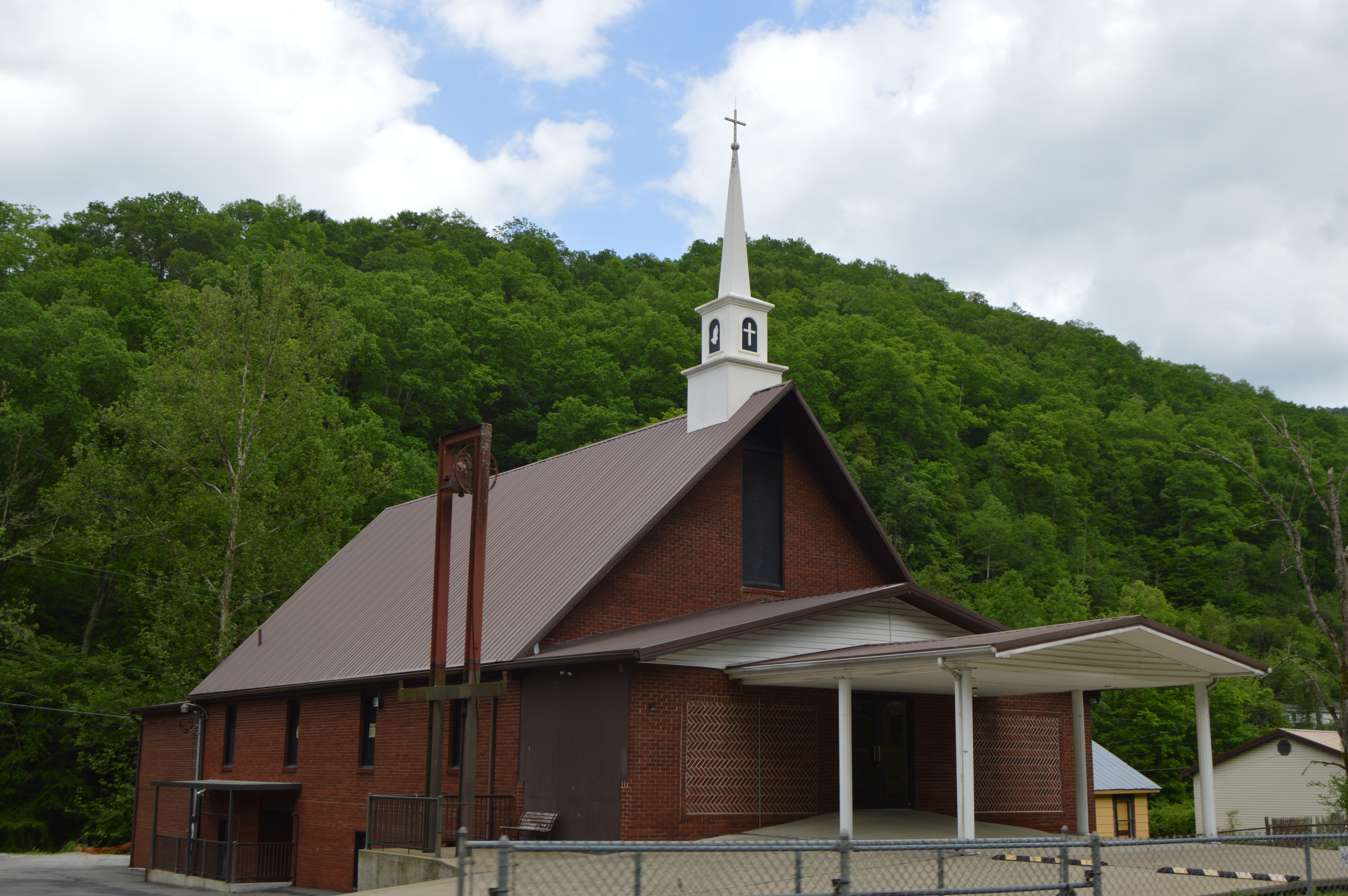 Front and northern side of Little Dove United Baptist Church, located on West Virginia Route 65 at Belo in Mingo County, West Virginia, United States.